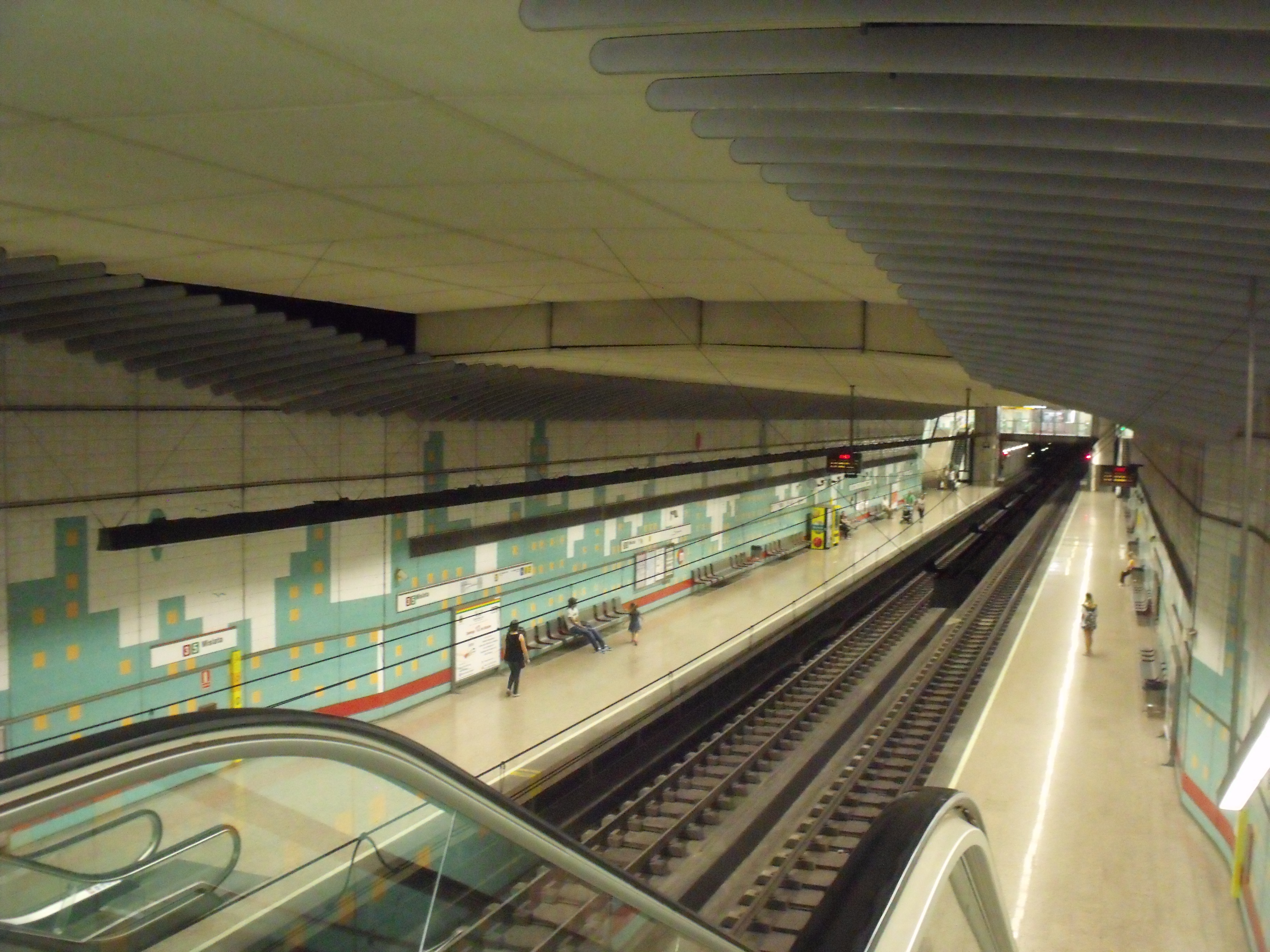 Mislata metro station.